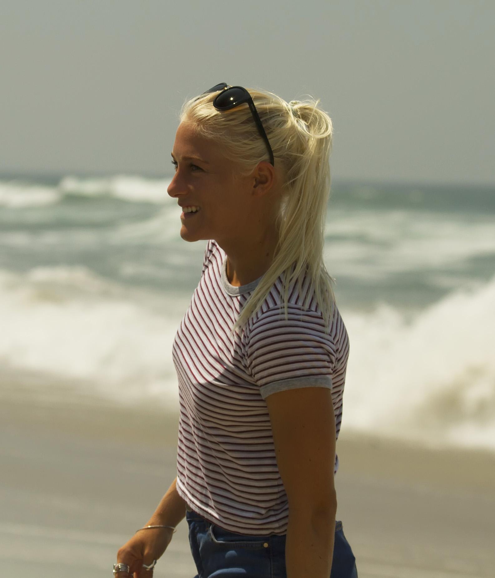 Tatiana Weston Webb hanging at the beach before her surf heat in Oceanside, CA.